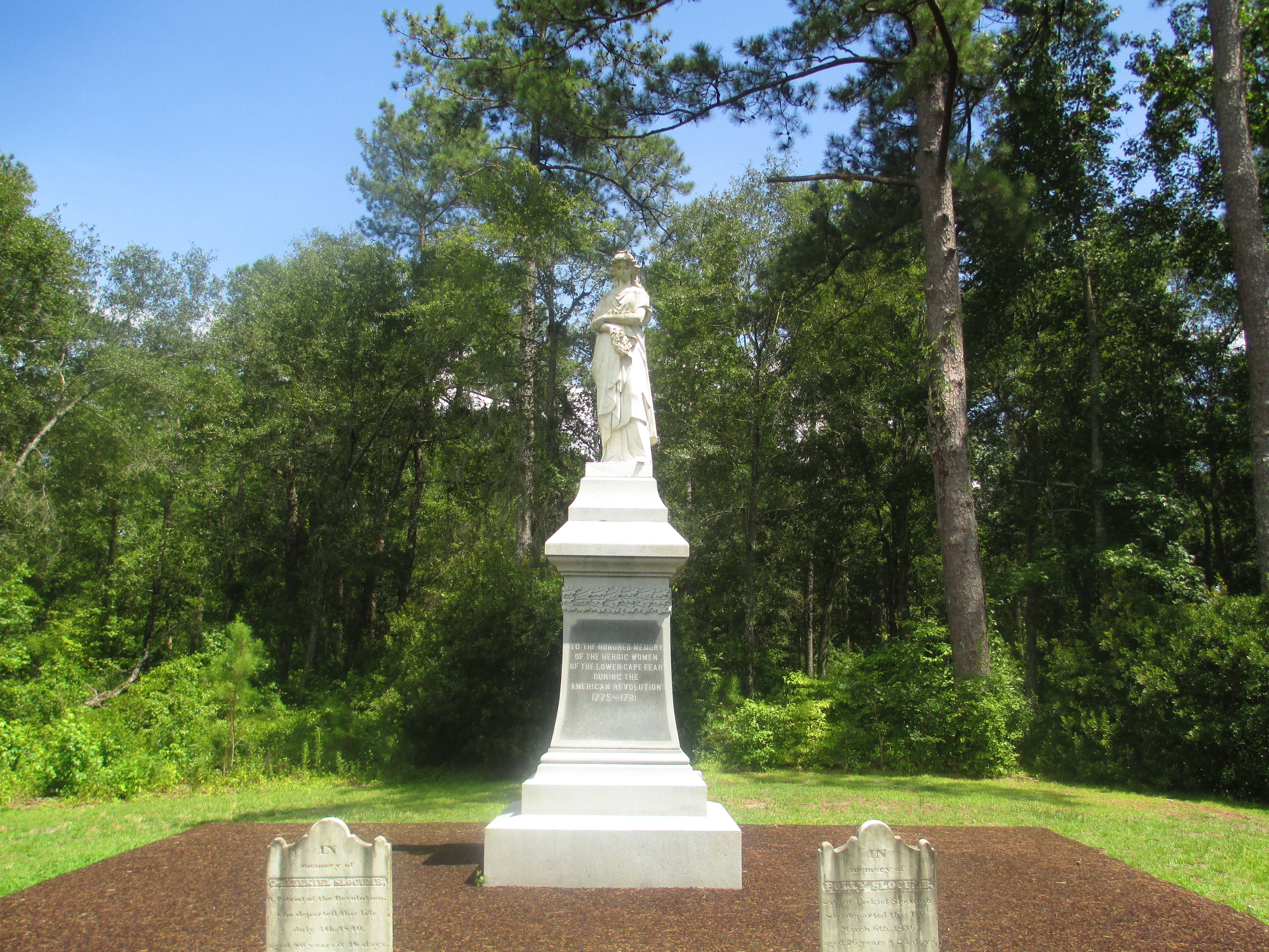 I took photo of statue honoring women's contributions of Lower Cape Fear Area at Moore Creek National Battlefield in Pender County, NC, using a Canon camera.